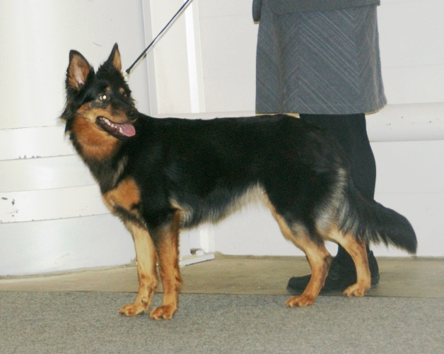 A Bohemian Shepherd. Colour: black&tan.